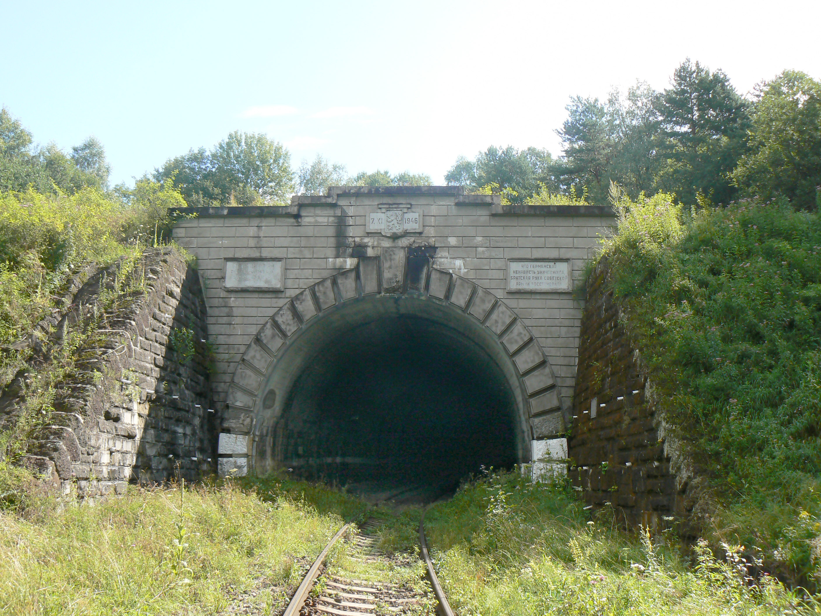 Lupkow train tunnel, railway line Medzilaborce - Sanok, Slovakia - Poland border.